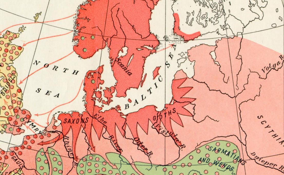 Gothic emigrations, 1800-100 BC, according to Madison Grant